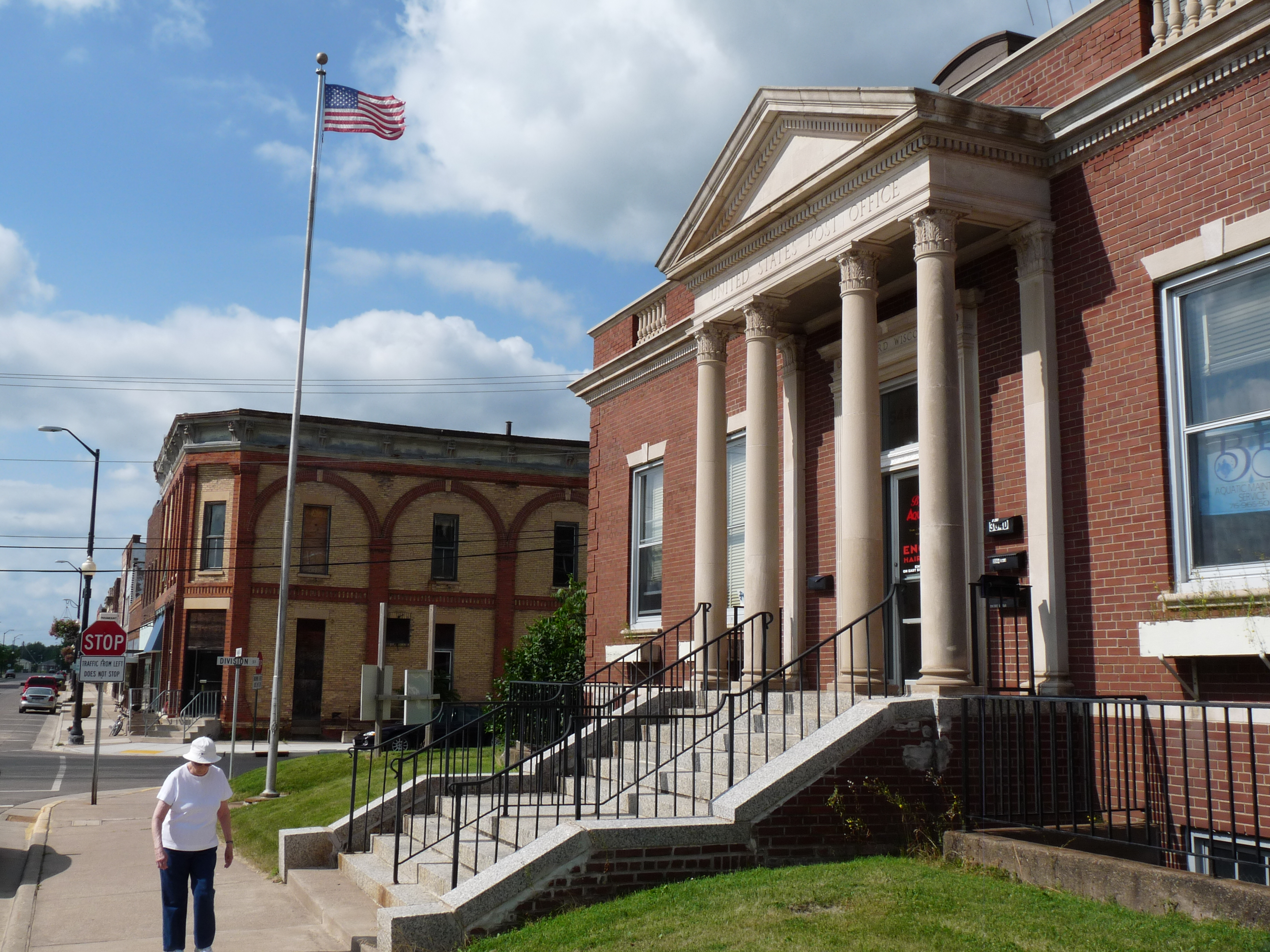 The old post office in Medford, Wisconsin was built in the late 1930s in the Colonial Revival style. It is now on the National Register of Historic Places. Behind the flag in the photo is the Medford Laundry building.